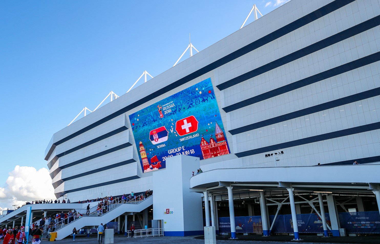 Kaliningrad Stadium